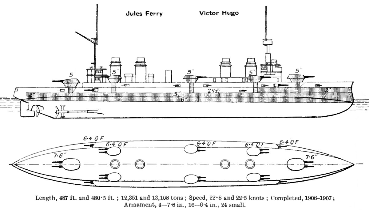 Right elevation and deck plan diagrams depicting French Léon Gambetta class armoured cruisers. Top diagram shows right side view and armour thickness in inches. Bottom diagram shows deck plan and gun sizes in inches.